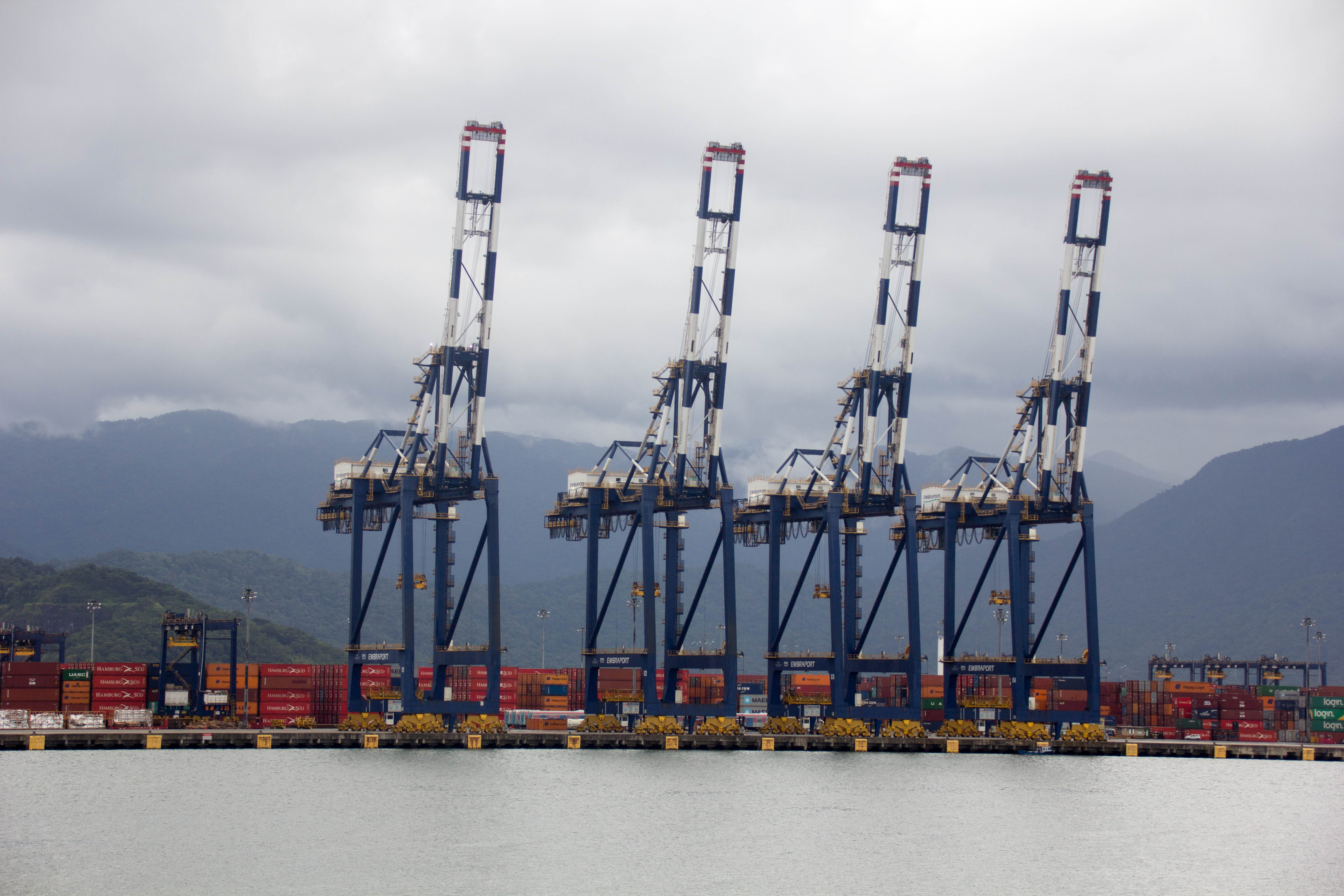 Santos, Brazil